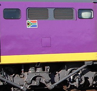 Hatchless left side of Class 6E1 Series 7 no. E1834Location: Bellville, Cape TownRebuilding: No. E1834 re-entered service in 2013 after being rebuilt to Class 18E no. 18-431